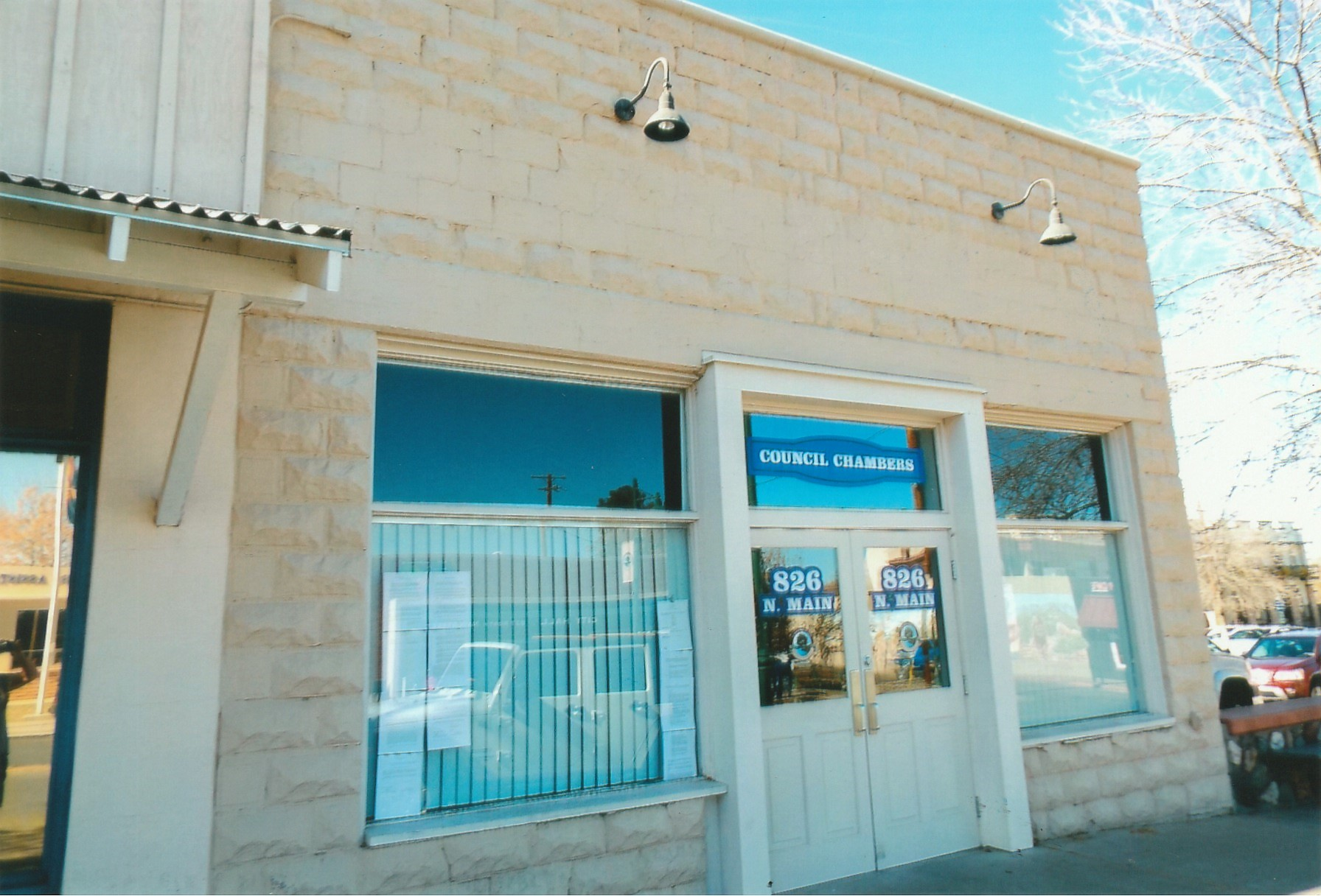 The “Building on 826” was built in 1925 and is located at 826 S. N. Main Street. It was listed in the National Register of Historic Places in 1986, reference #86002147.